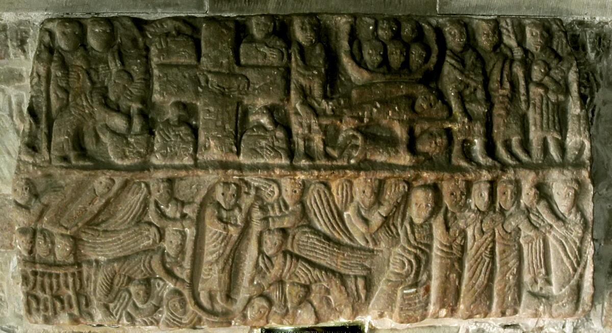 The Wirksworth Stone is a Northumbrian sarcophagus lid, found under the altar of St Mary's Church in Wirksworth in 1821. Its main panel shows a bishop being carried to heaven by angels.